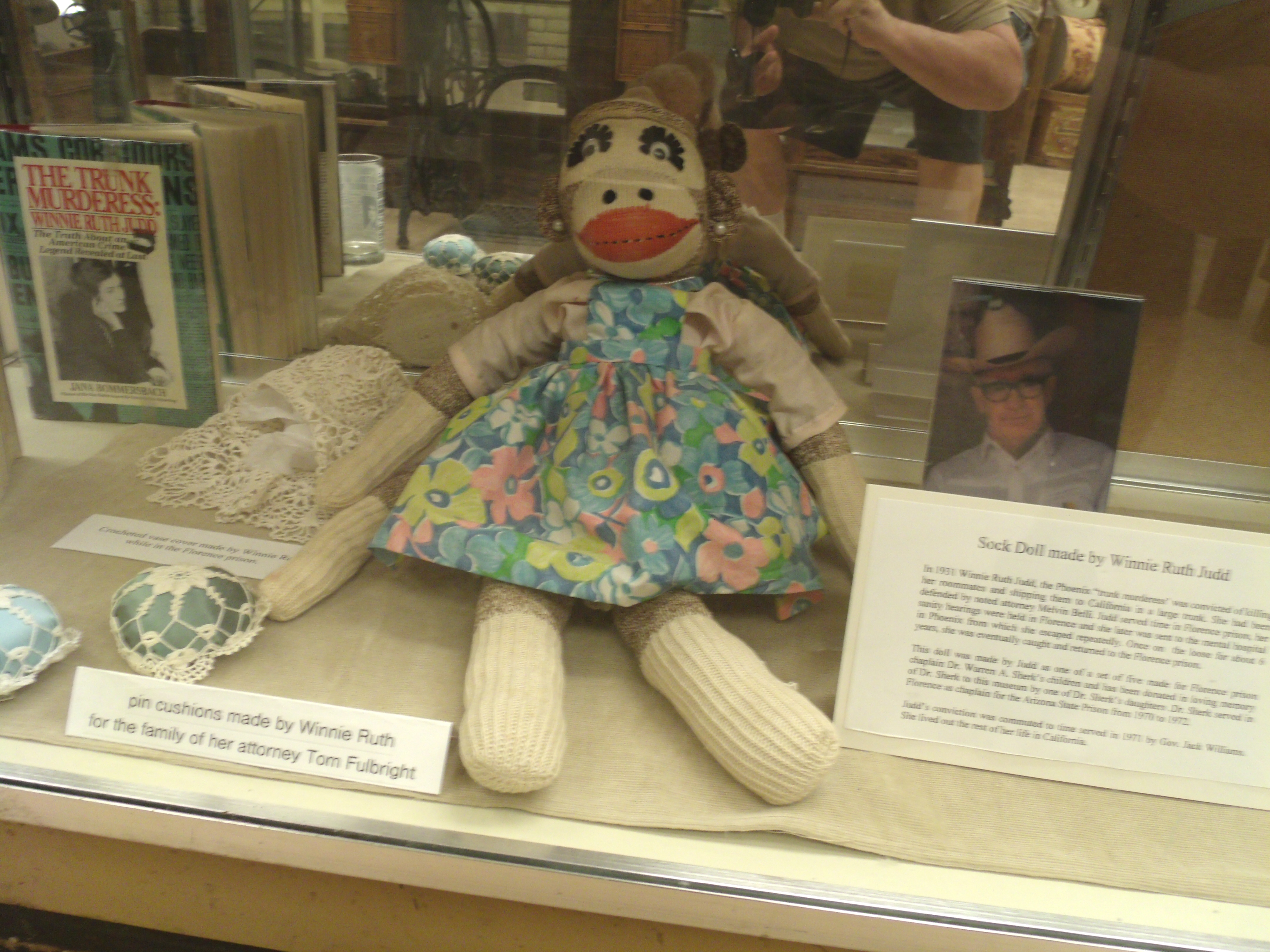 Pinal County Historic Society & Museum located at 715 S. Main St. in Florence, Az. Doll made by Winnie Ruth Judd, the Trunk Murderess, while imprisoned in the Arizona State Prison, on exhibit. On February 20, 2014, the doll and the story of Judd’s crime were featured in a episode of Mysteries at the Museum TV show titled the “Blonde Butcher”. TV Guide; Mysteries at the Museum.